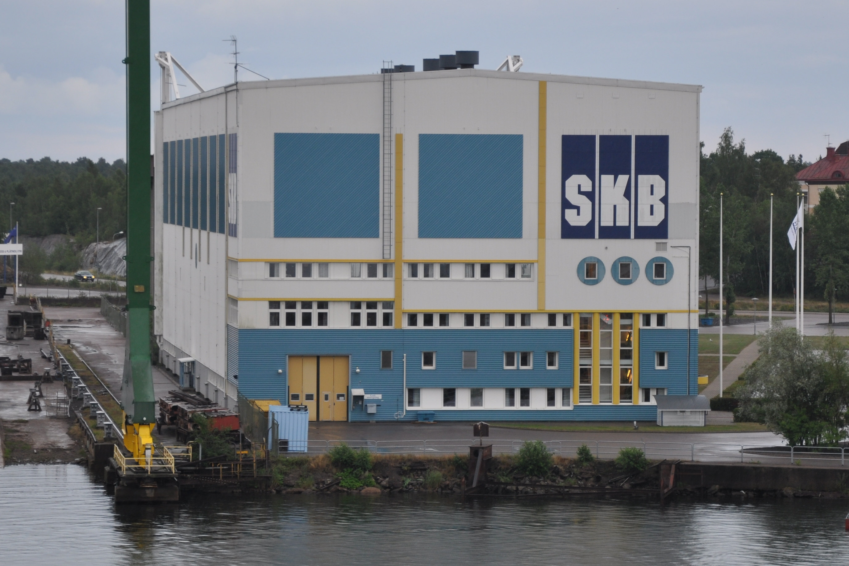 Research facility for copper canisters to be used in storage of spent nuclear fuel, Swedish nuclear fuel and management CO, SKB. Situated in the port of Oskarshamn, Sweden.